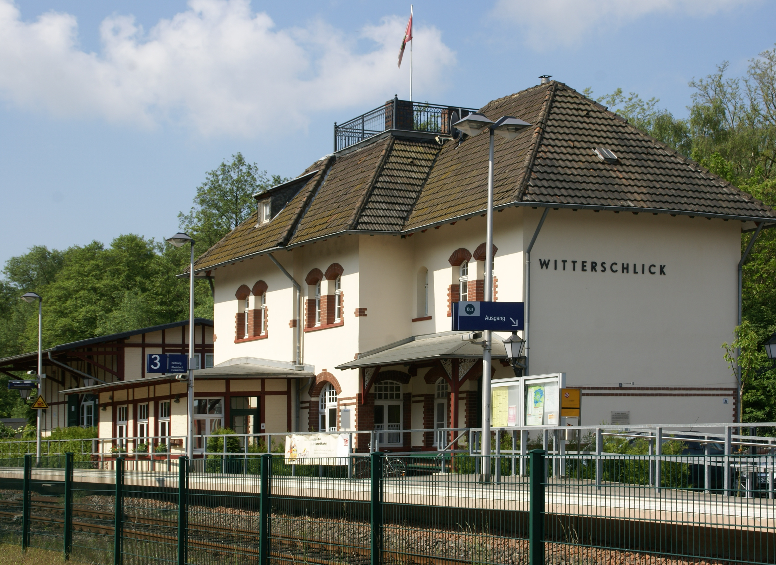 Train station of Witterschlick that is part of the community Alfter